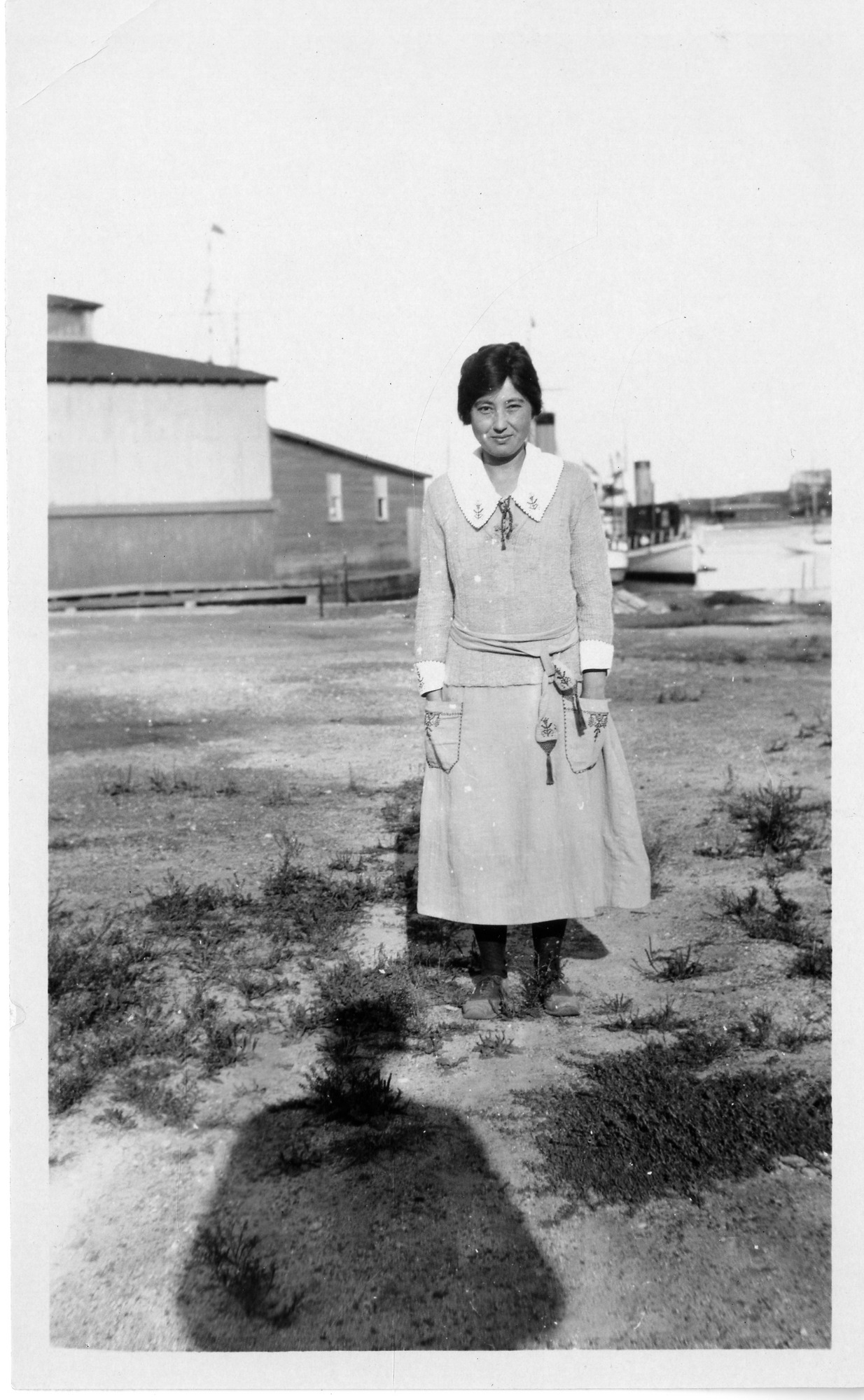 Subject: Osterhout, Marian Irwin 1888-1973 Bryn Mawr College Radcliffe College Rockefeller Institute Type: Black-and-White Prints Topic: Botany Women scientists Local number: SIA Acc. 90-105 [SIA-SIA2008-4270] Summary: Botanist Marian Irwin Osterhout (1888-1973) was educated at Bryn Mawr and Radcliffe (Ph.D., 1919) and later worked at Rockefeller Institute, 1925-1933. Her research specialty was cell permeability. Cite as: Acc. 90-105 - Science Service, Records, 1920s-1970s, Smithsonian Institution Archives Persistent URL:Link to data base record Repository:Smithsonian Institution Archives View more collections from the Smithsonian Institution.